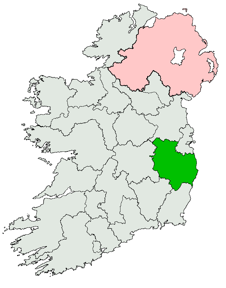 Map depicting the former Irish electoral constituency of Kildare-Wicklow, created under the Government of Ireland Act 1920 and abolished under the Electoral Act of 1923.